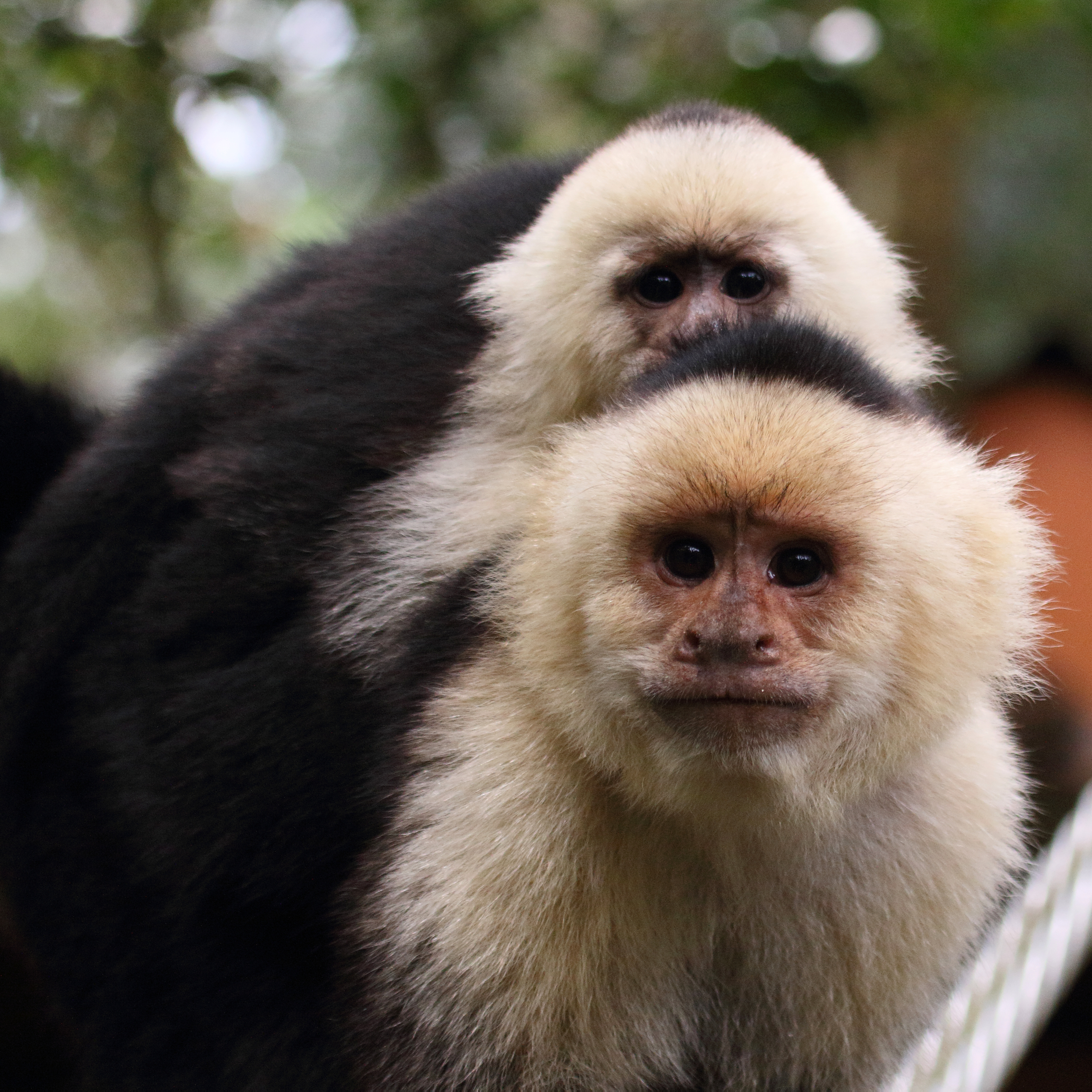 White-headed capuchin, Santa Elena, Costa Rica